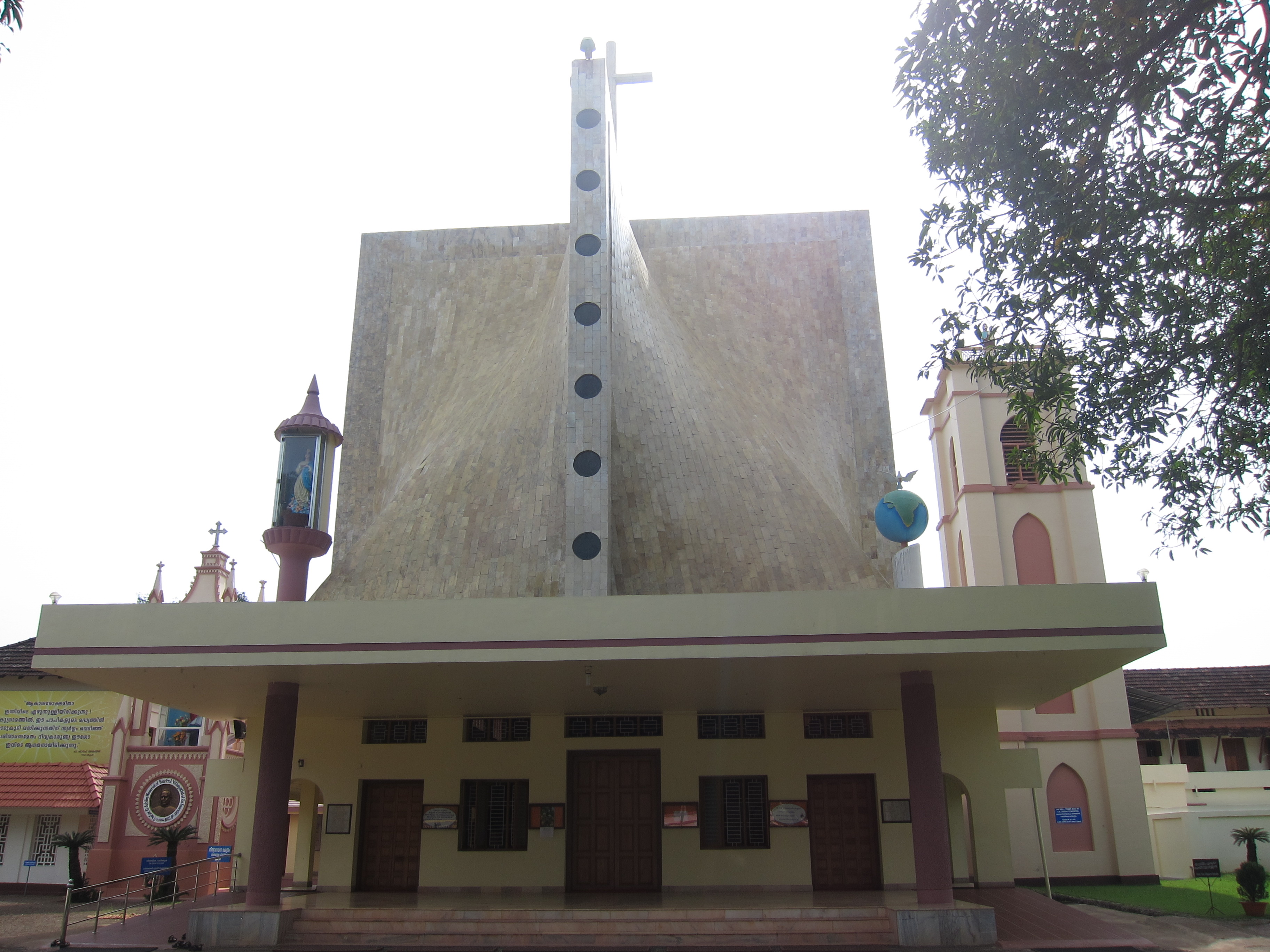 Mariam Thresia - മറിയം ത്രേസ്യ മറിയം ത്രേസ്യയുടെ മൃതശരീരം അടക്കം ചെയ്തിരിക്കുന്ന കുഴിക്കാട്ടുശ്ശേരിയിലെ ഹോളി ഫാമിലി കോൺവെന്റ വക പള്ളി